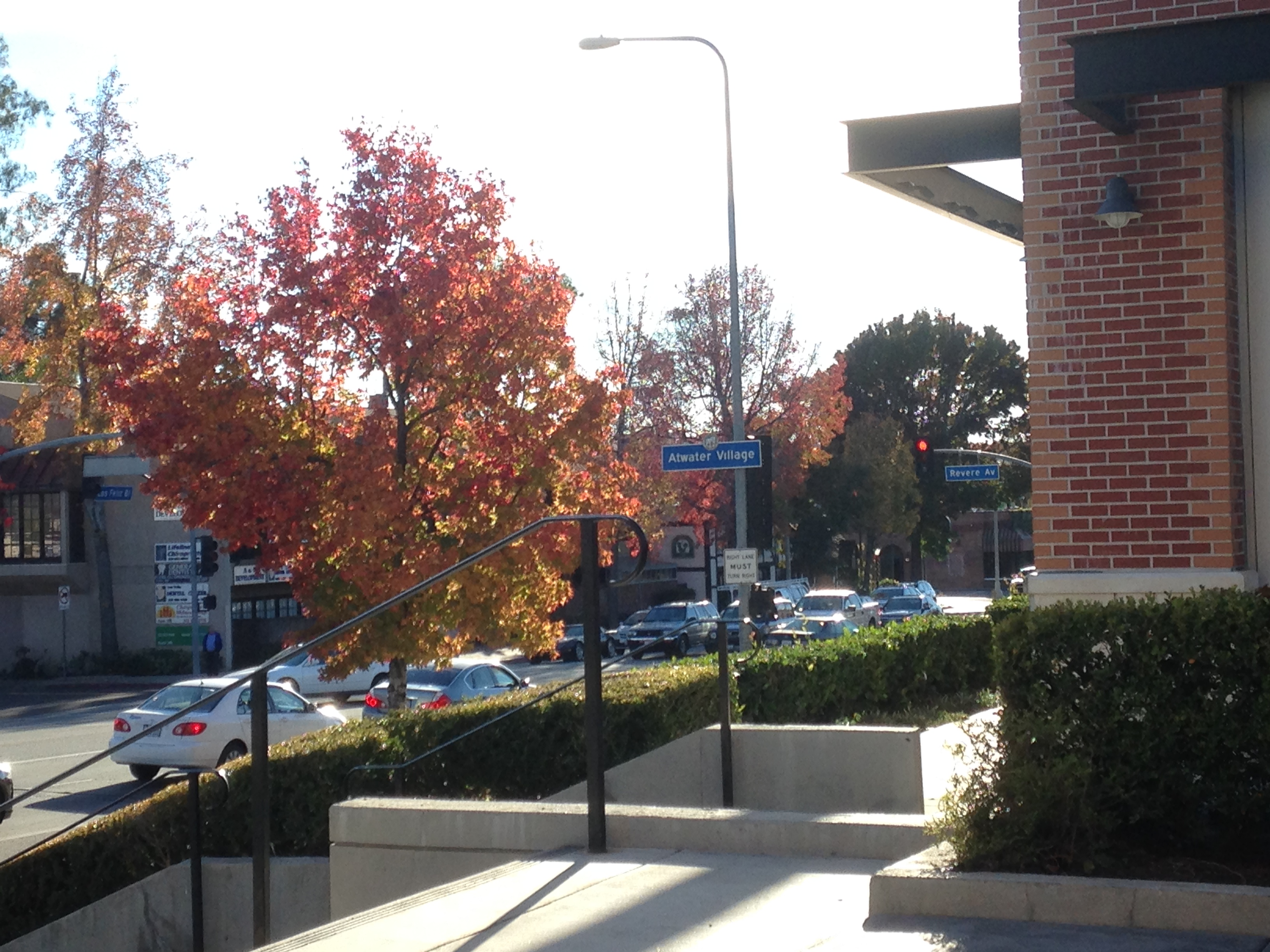 Atwater Village marker on Los Feliz Blvd in Los Angeles, CA.